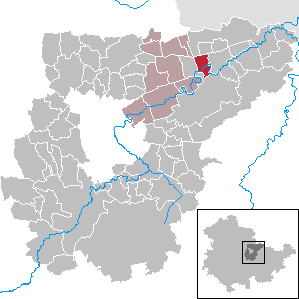 Mattstedt in Thuringia - District Weimarer Land